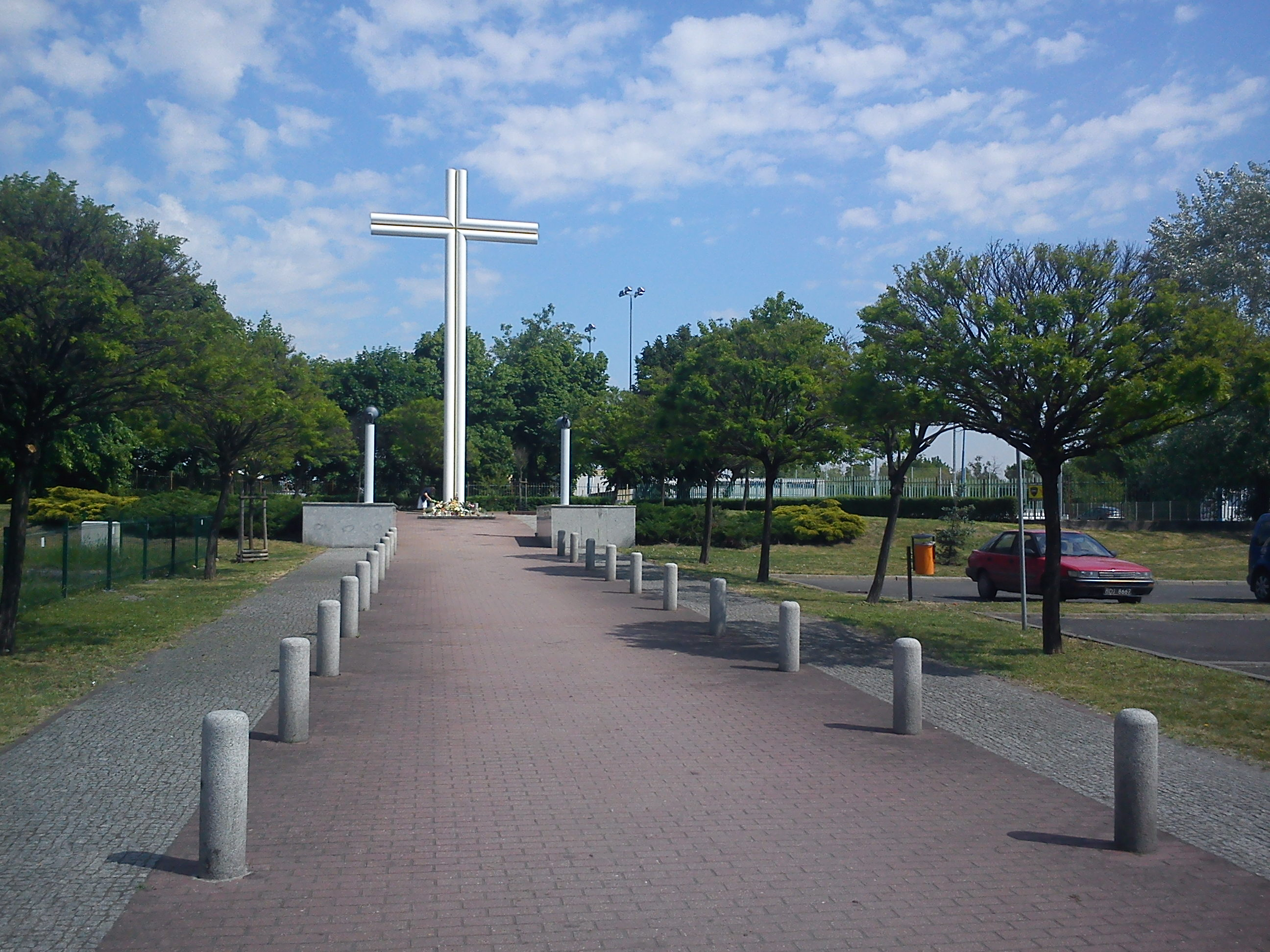 JPII Cros in Poznan.